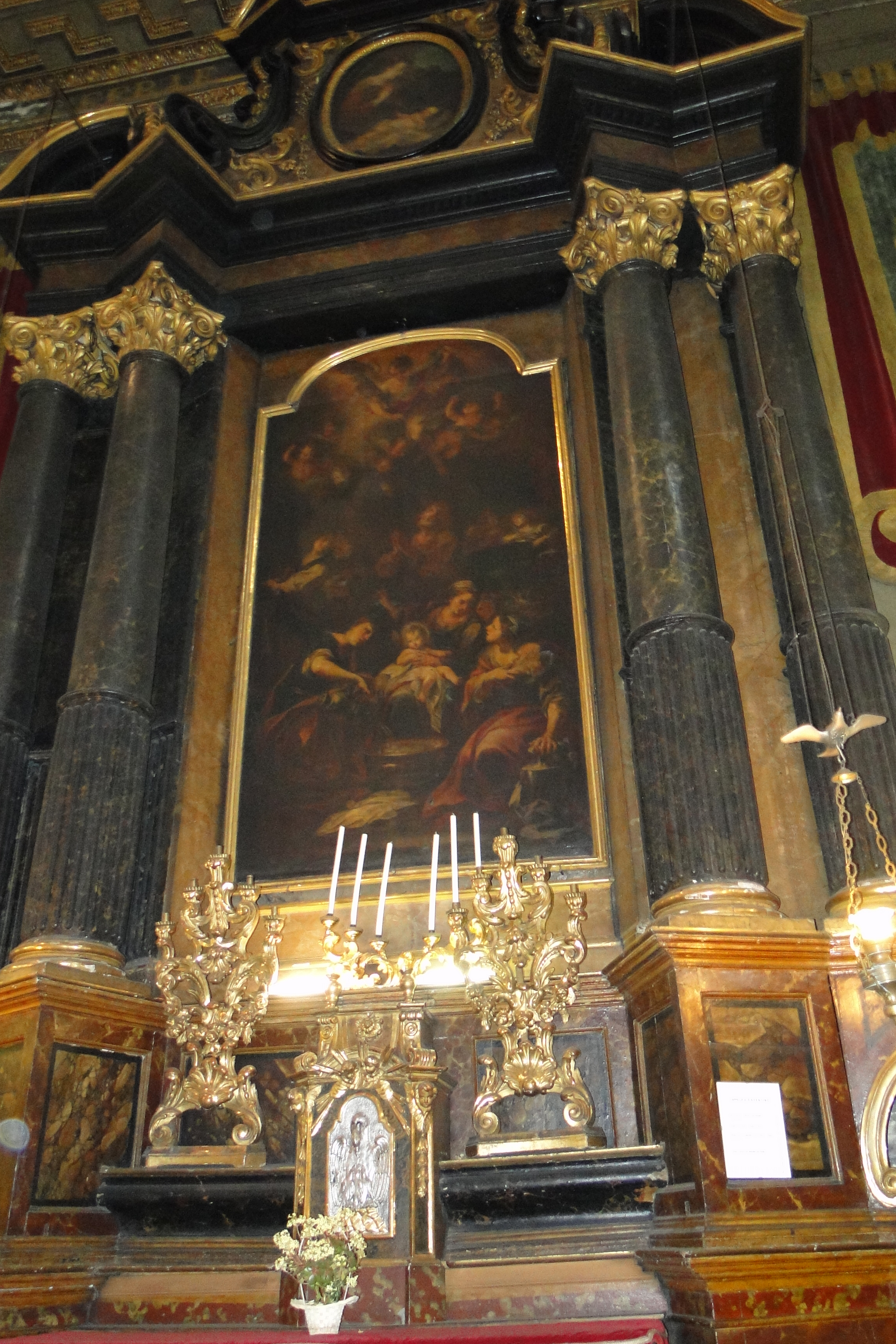 Birth of The Holy Virgin by Alessandro Mari, church of San Rocco (Turin, Italy)